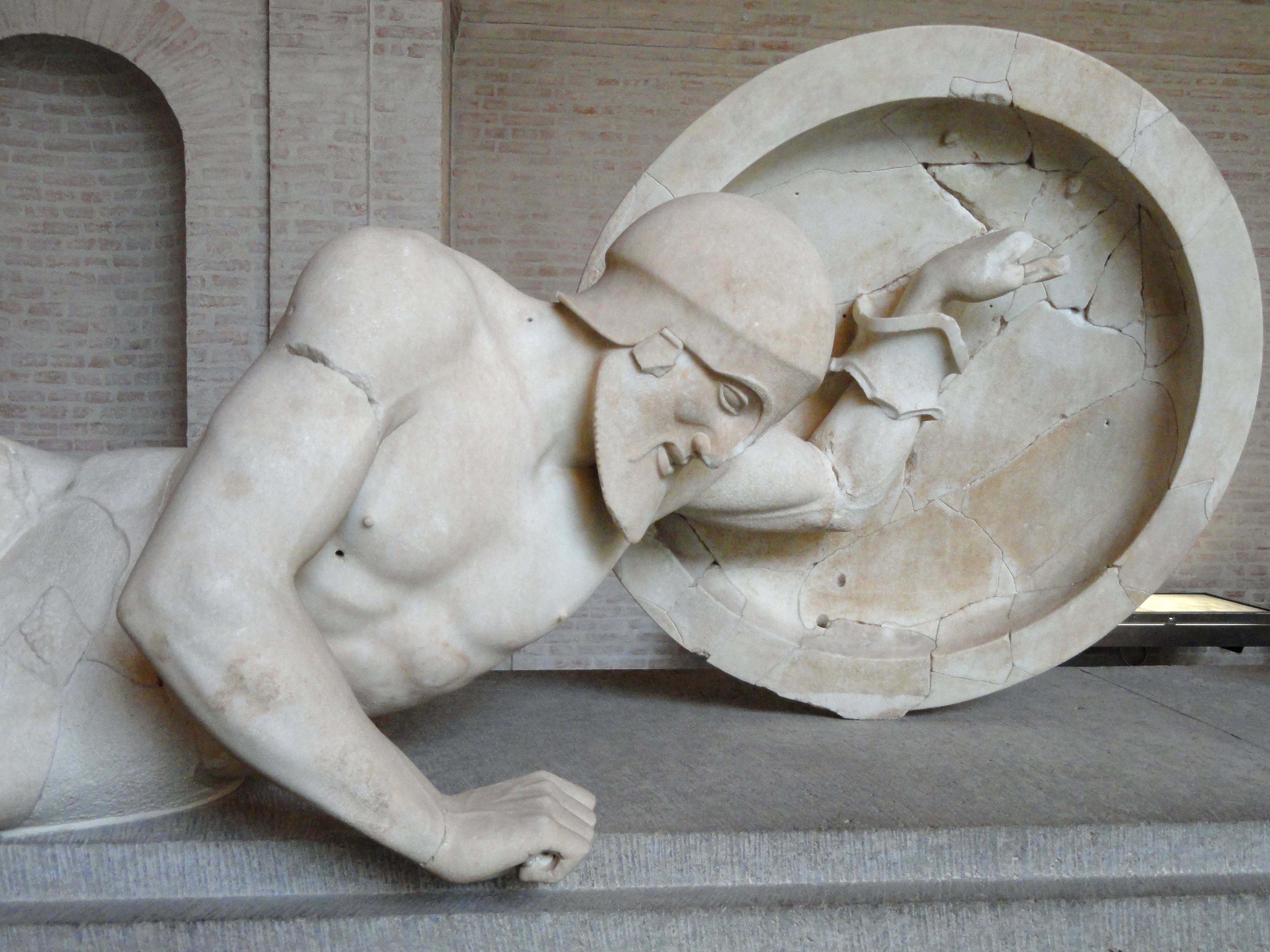 So-called “Dying warrior” (fallen Trojan warrior, probably Laomedon), figure E-XI of the east pediment of the Temple of Aphaia, ca. 490-480 BC.